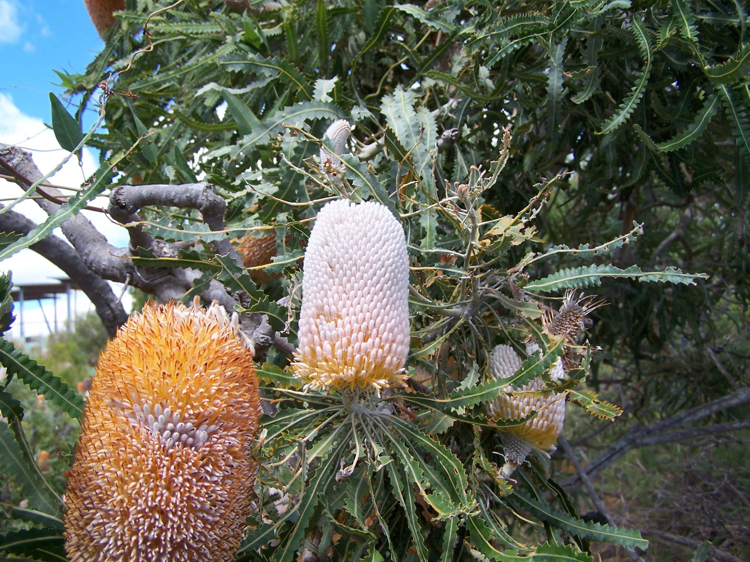 Banksia prionotes taken at Reabold Hill in Bold Park Floreat Western Australia